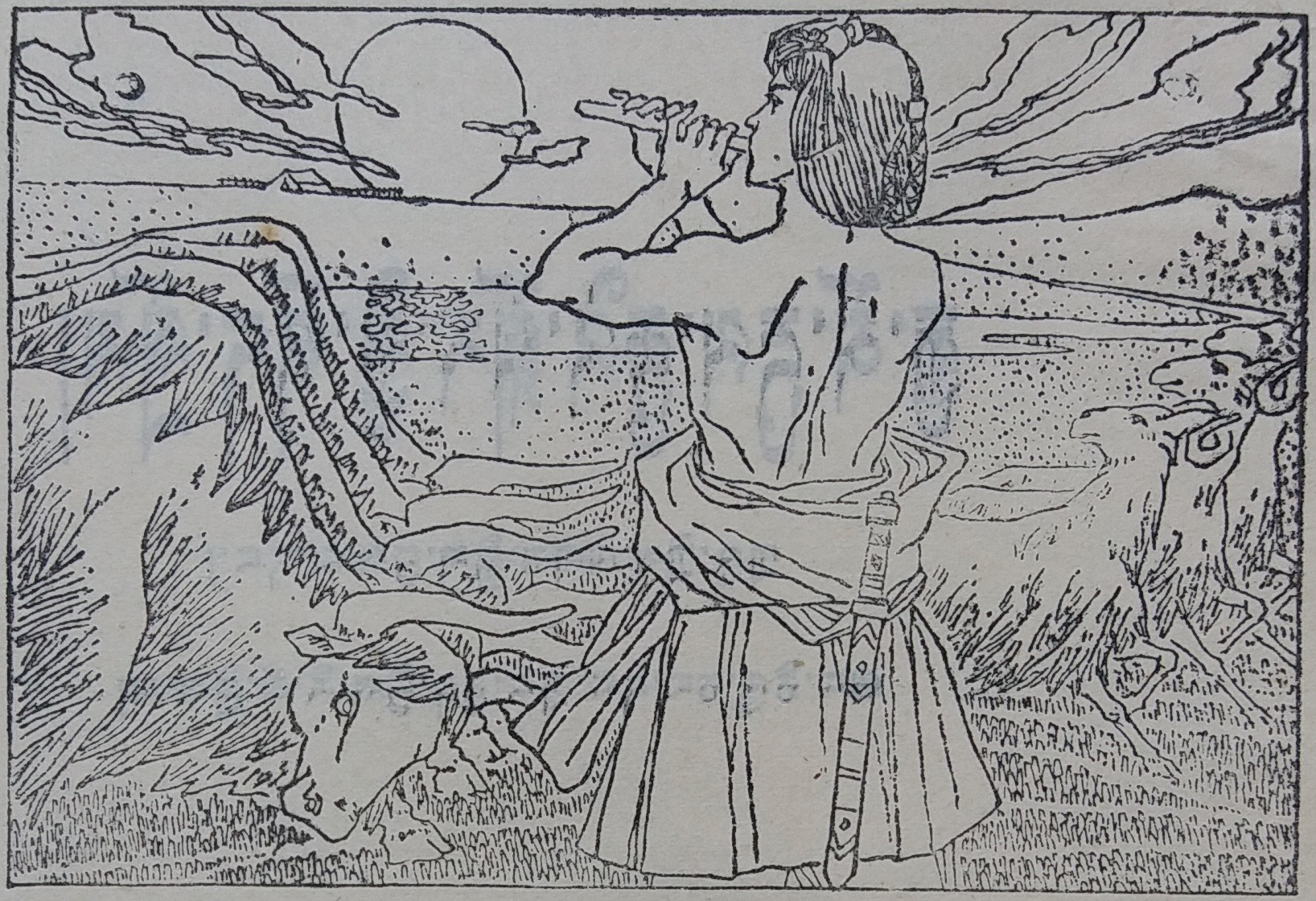 Illustration made by Chiu-chiang Wang, for The Swan, a palm-sized picture book in Tibetan language, which recounts the Tibetan folklore.